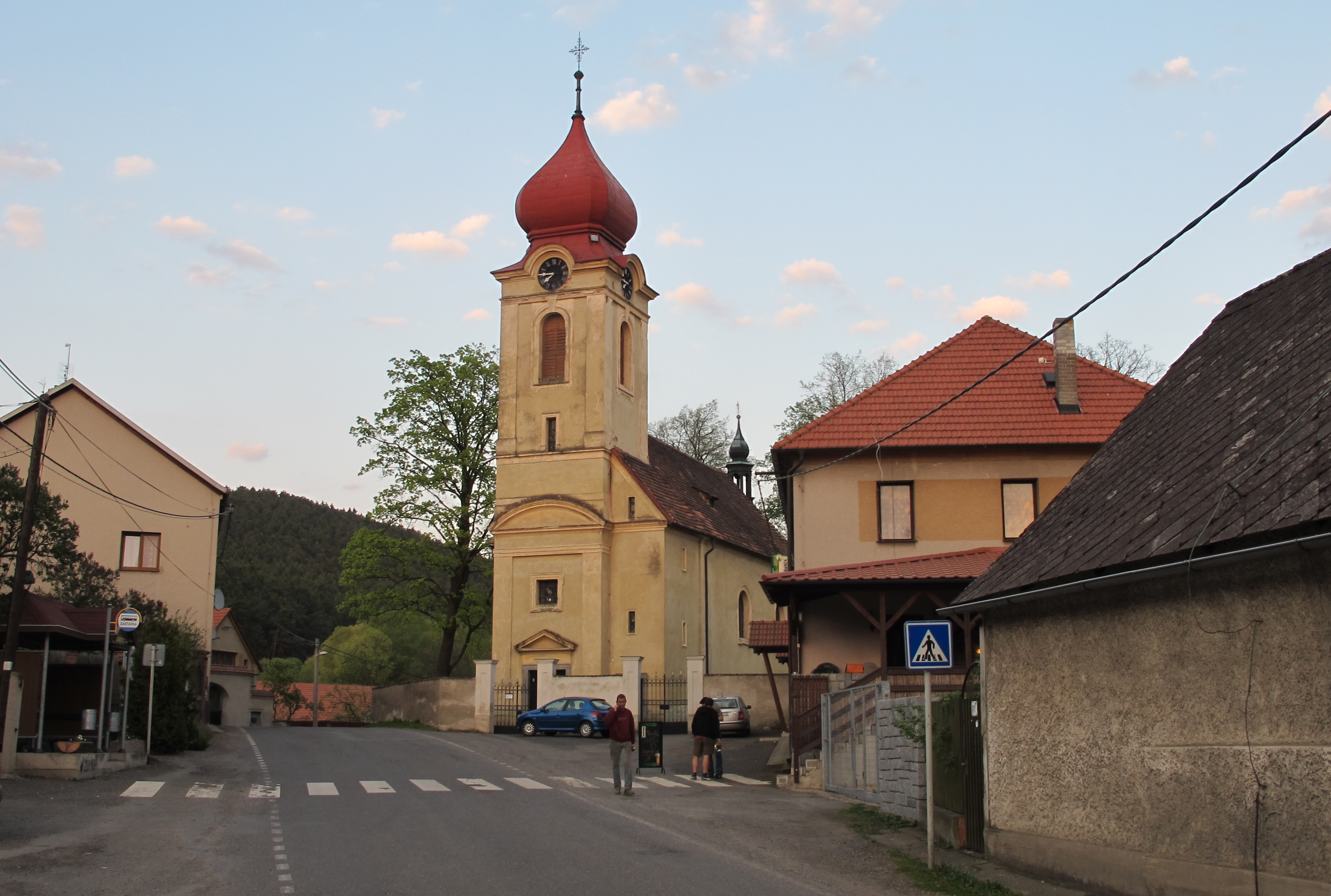 church in Borotice, Příbram District